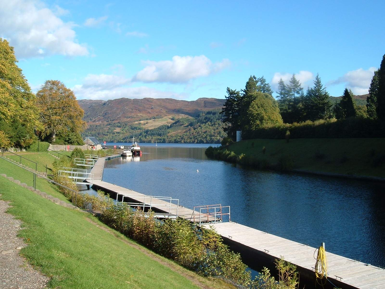 Looking towards the north, where the Canal enters Loch Ness, from Fort Augustus village.